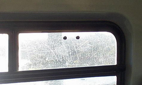 The first batch of the K sets were fitted with air conditioning just prior to the Sydney 2000 Olympics. However, these cars retained the "hopper" windows from their "Citydecker" refurbishment, but were sealed shut with an adhesive to avoid the loss of air conditioning. This photo shows the covering where the handle used to be.